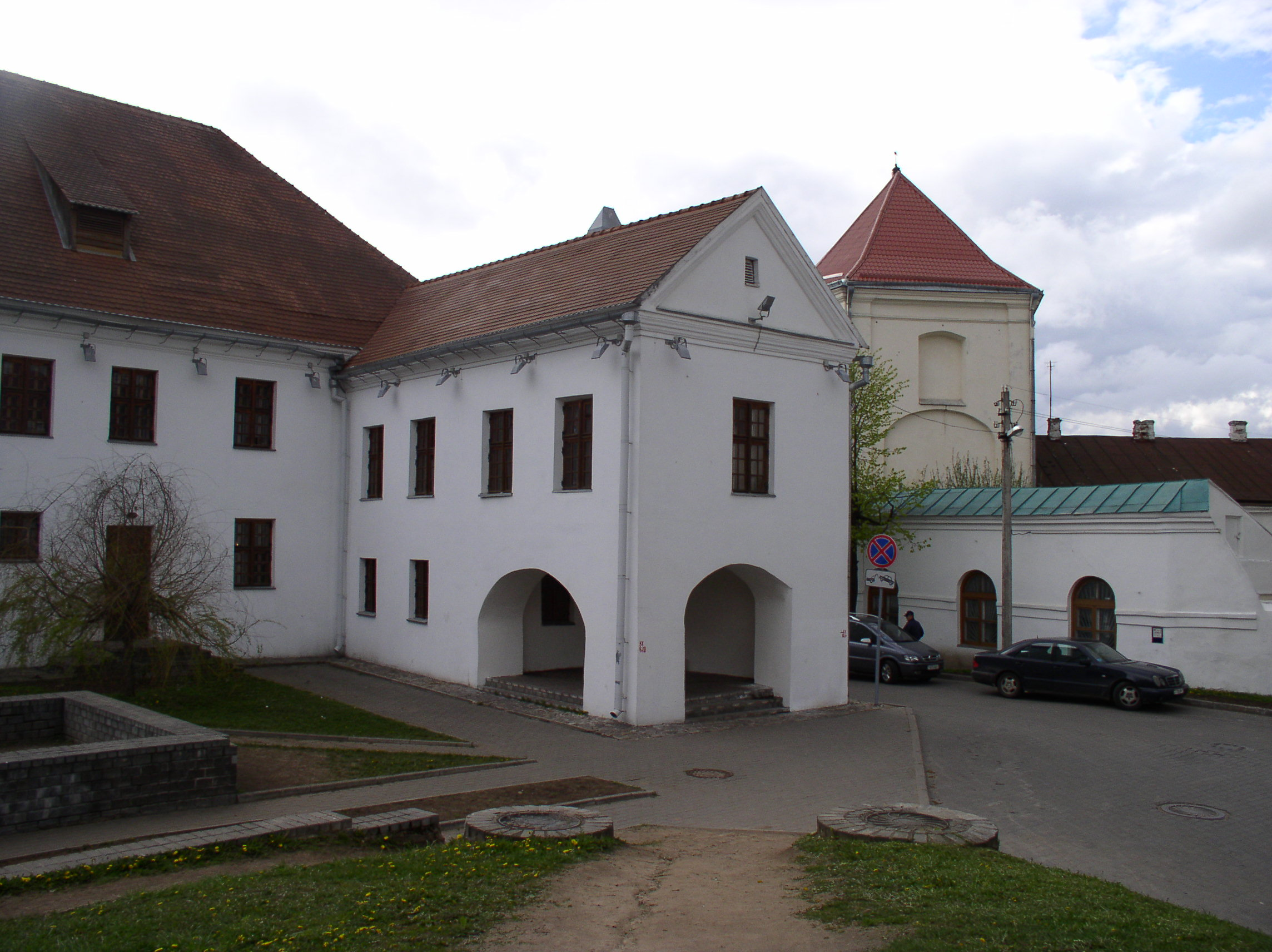 Convent of Basilians of Holy Spirit. Minsk, Belarus.